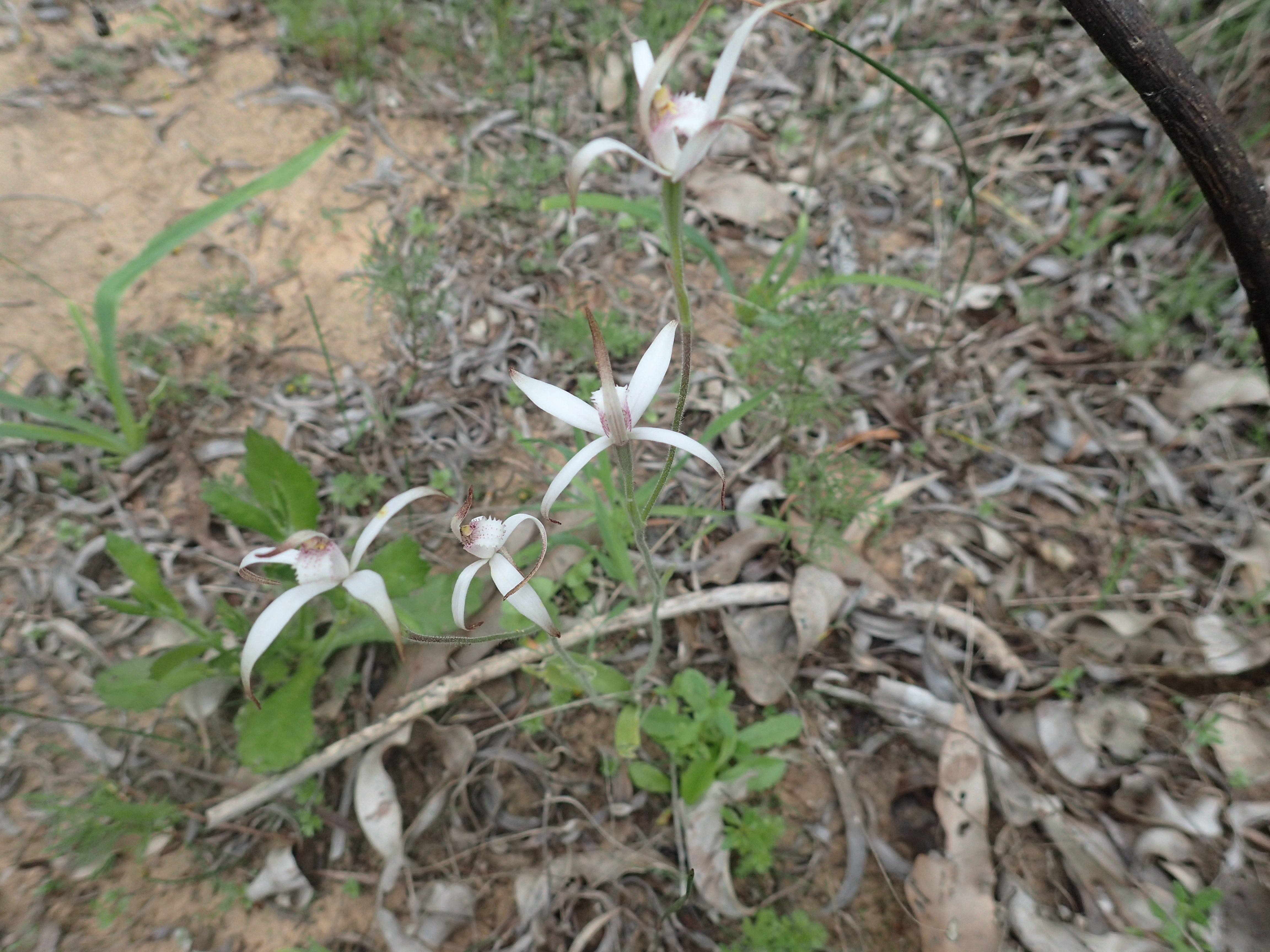 Caladenia hirta subsp. hirta growing in Cockleshell Gully near Leeman, Western Australia